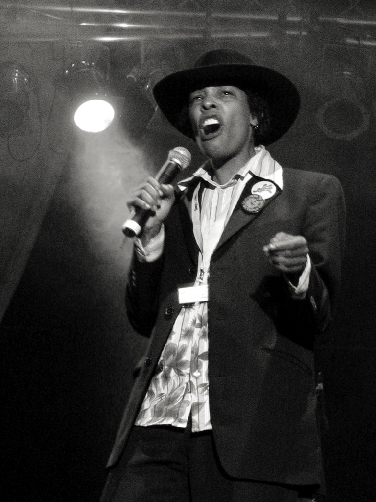 Marla Glen in concert, germany, 2003 own photo, sep 13, 2003 photo: nomo/michael hoefner